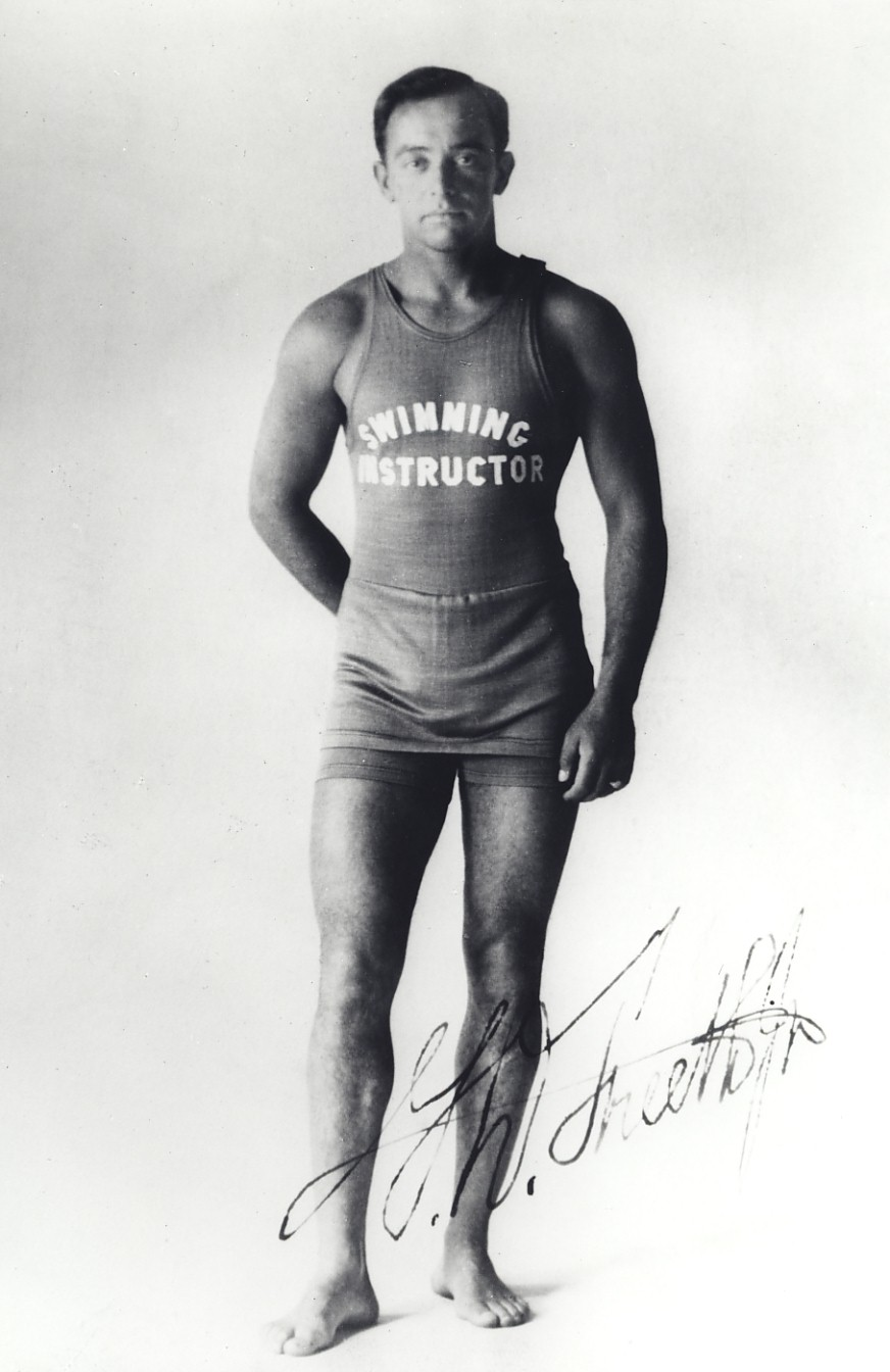 George Freeth (November 8, 1883 – April 7, 1919), often credited as being the "Father of Modern Surfing." Los Angeles County Lifeguard Trust Fund.